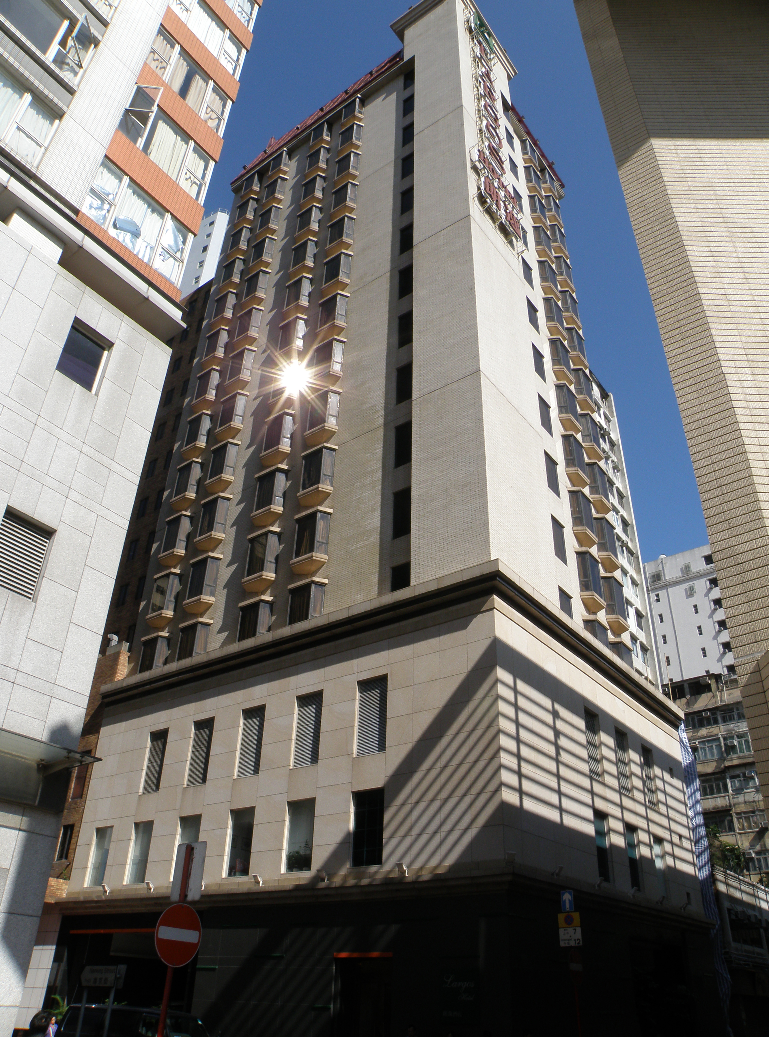 Largos Hotel in Jordan, Hong Kong.